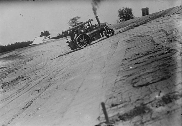 Indianpolis Motor Speedway loc cropped